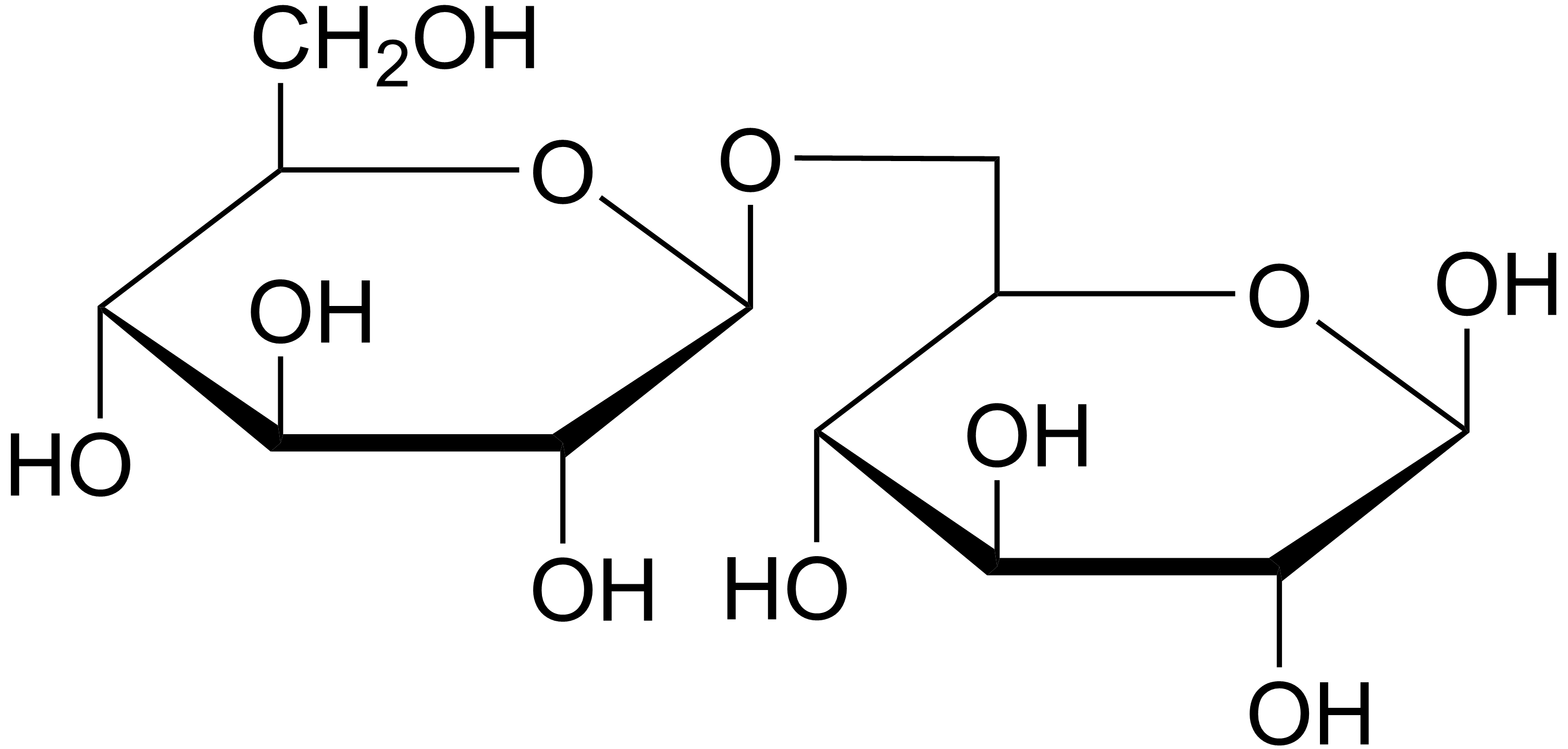 Chemical structure of gentiobiose created with ChemDraw.